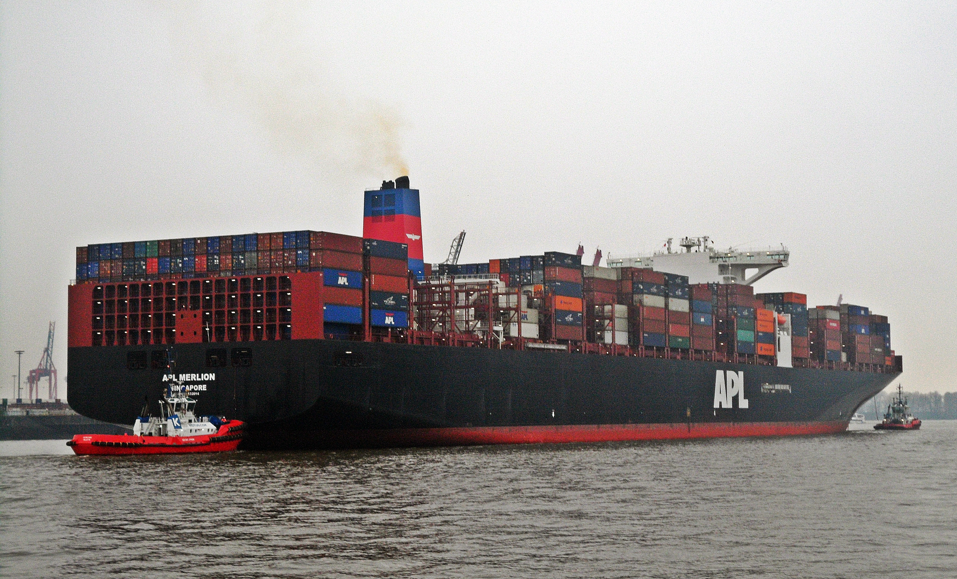 New container ship APL Merlion starting port of Hamburg on the river Elbe